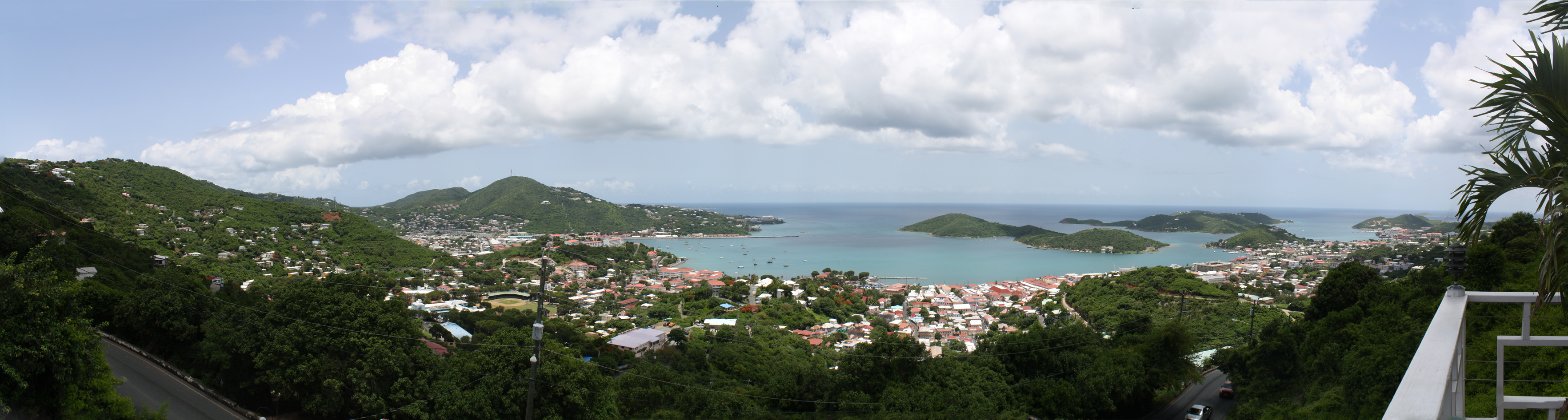 Panoramic view taken of the Virgin Islands capital, Charlotte Amalie.